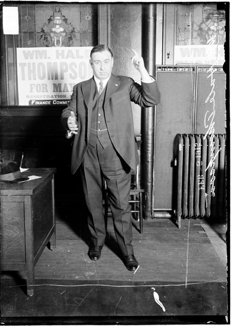 A full-length portrait of William Hale Thompson, striking a speaking pose, in a room in Chicago, Illinois. He is looking at the camera and holding up one finger. CREATED/PUBLISHED ca. 1915 Feb. 5 DN-0009693, Chicago Daily News negatives collection, Chicago Historical Society.